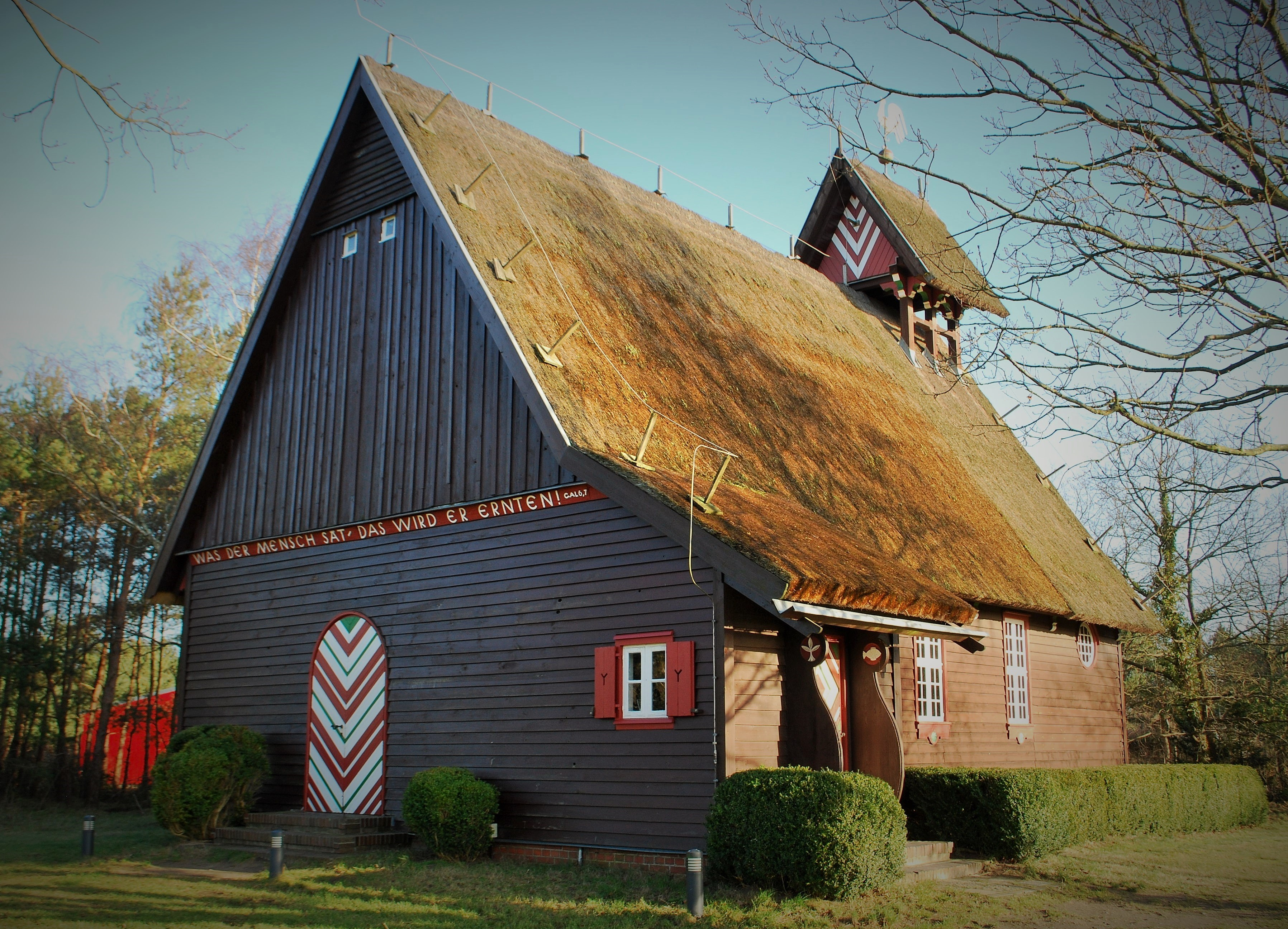 Fishermen's Church - Born a. Darß Born is said to be the most beautiful village at the Darß since most of the tiny and typical thatched cottages are still there.